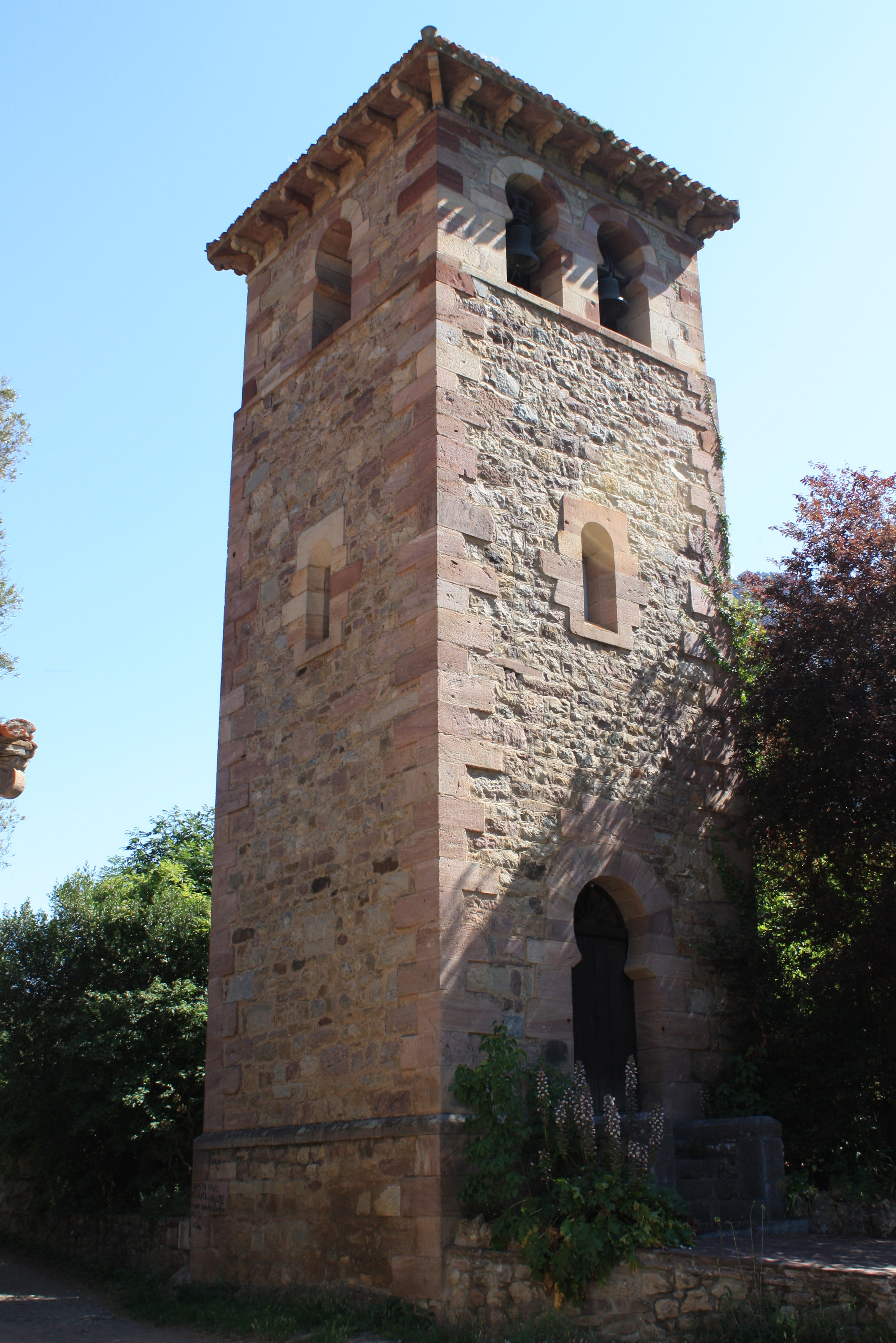 Tower of the church of Santa María de Lebeña